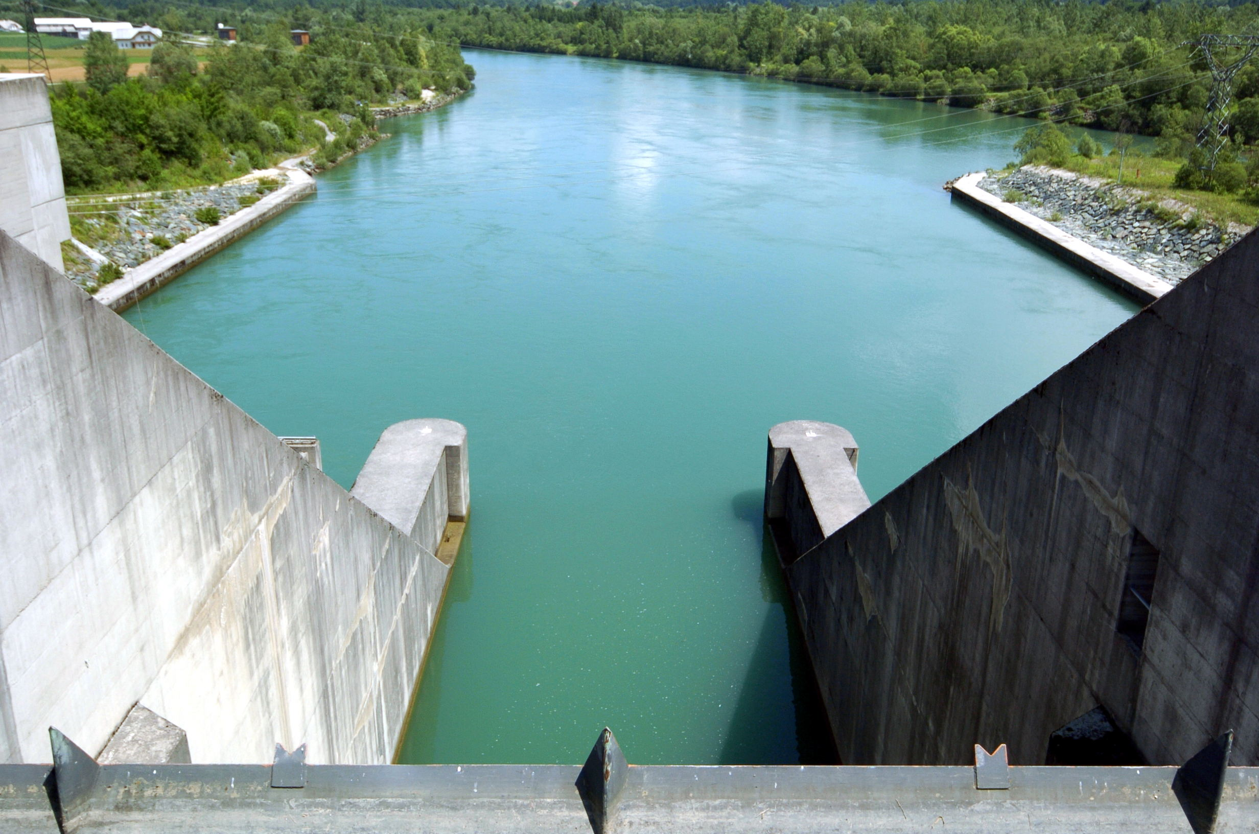 River power plant Abtei-Annabruecke on the Drava in the community Gallizien, district Voelkermarkt, Carinthia, Austria